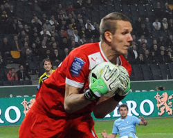 A shot of the 2013 Allsvenskan match between AIK and Malmö FF.